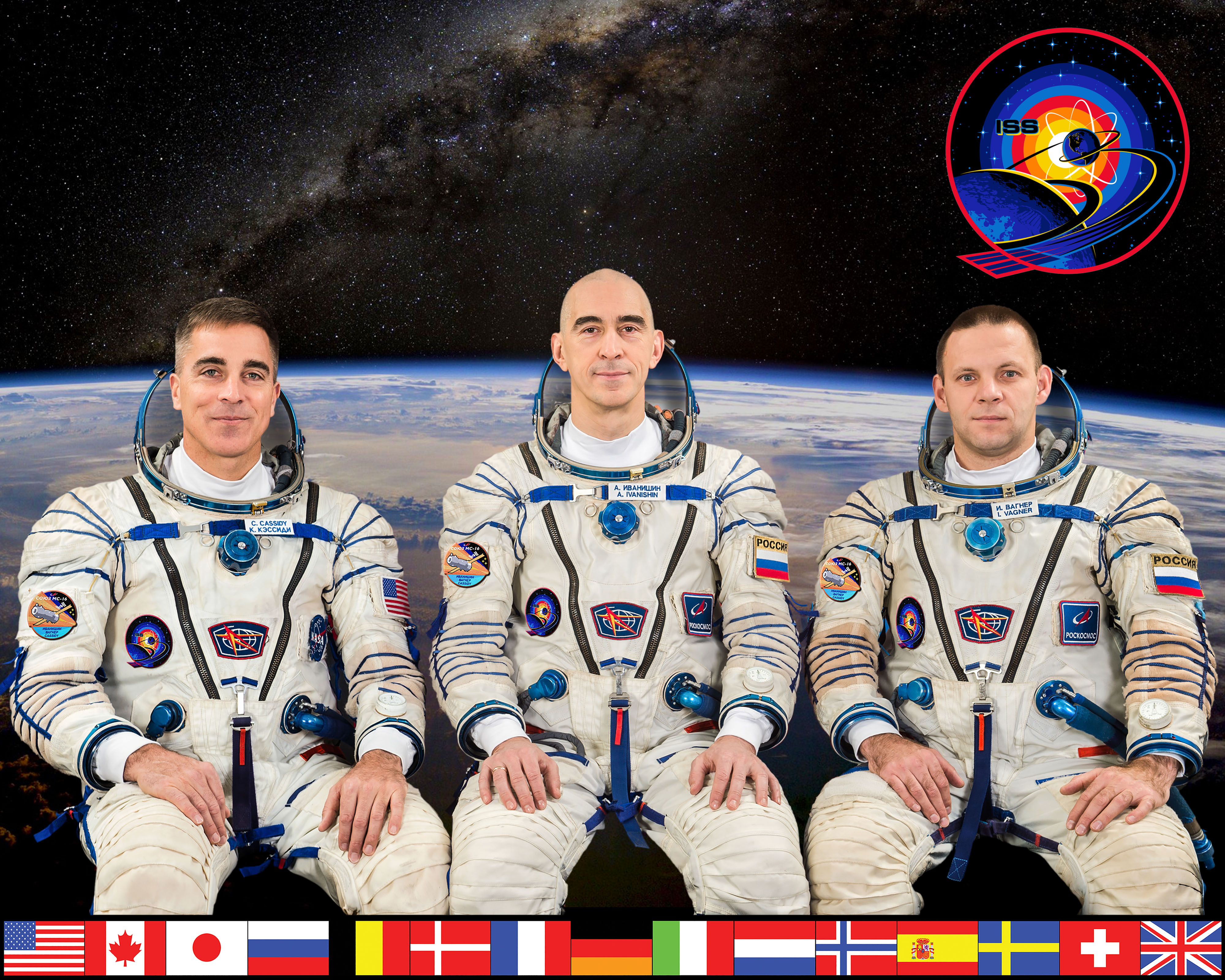 The official Expedition 63 crew portrait. From left are, NASA astronaut and Commander Chris Cassidy and Roscosmos cosmonauts and Flight Engineers Anatoly Ivanishin and Ivan Vagner.